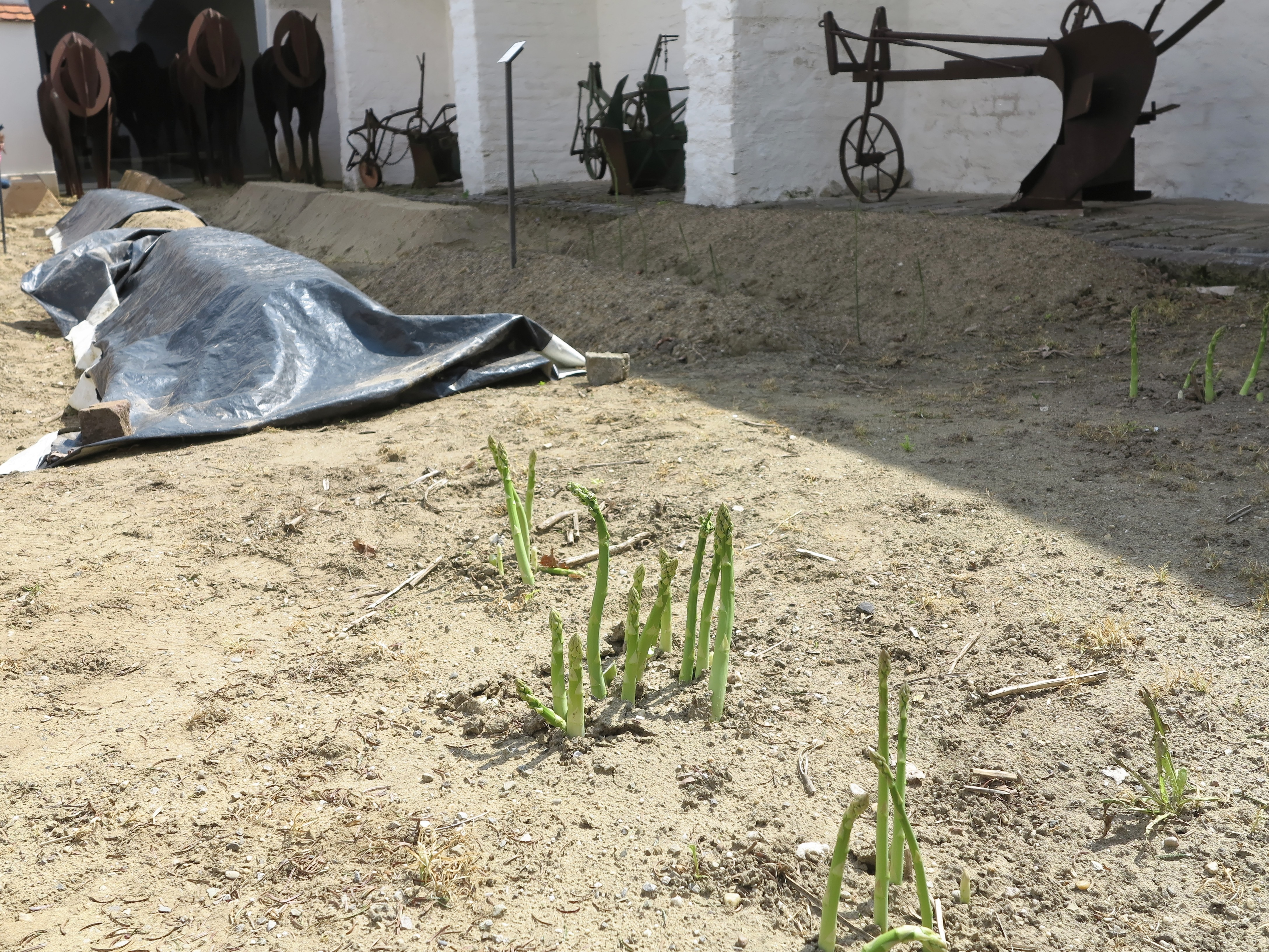 European Museum of Asparagus (Food)